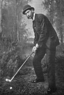 Scottish golfer Willie Dunn, Sr., circa 1865 --EditorExtraordinaire (talk) 21:22, 19 April 2015 (UTC)